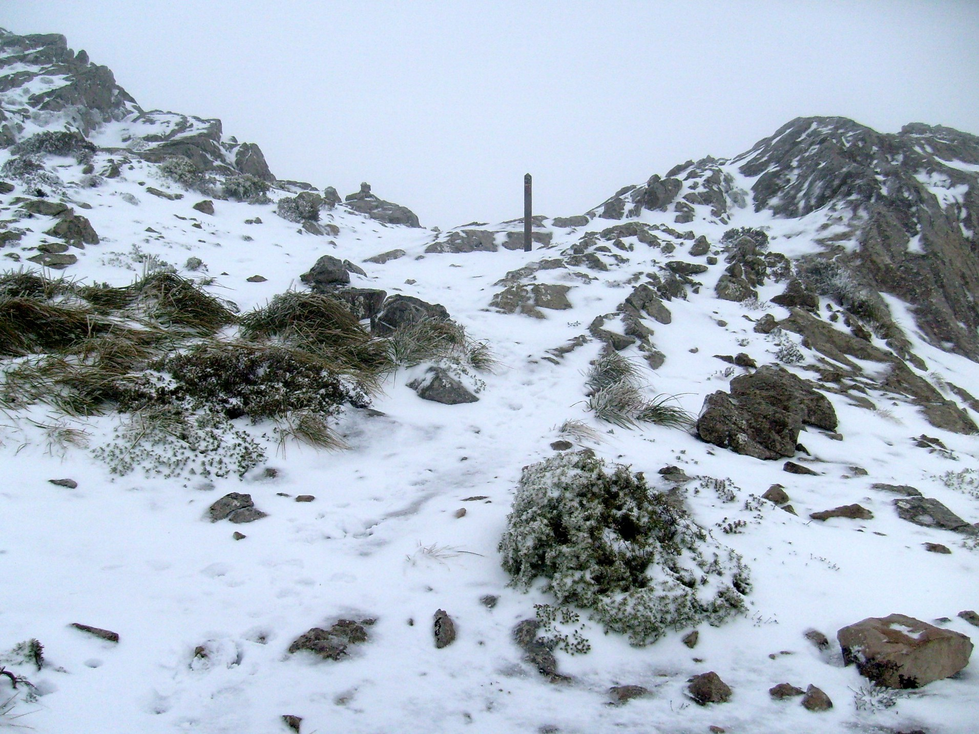 Coll de Ses Cases de Sa Neu